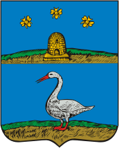 Lebedyan (Lipetsk oblast), coat of arms (1781)